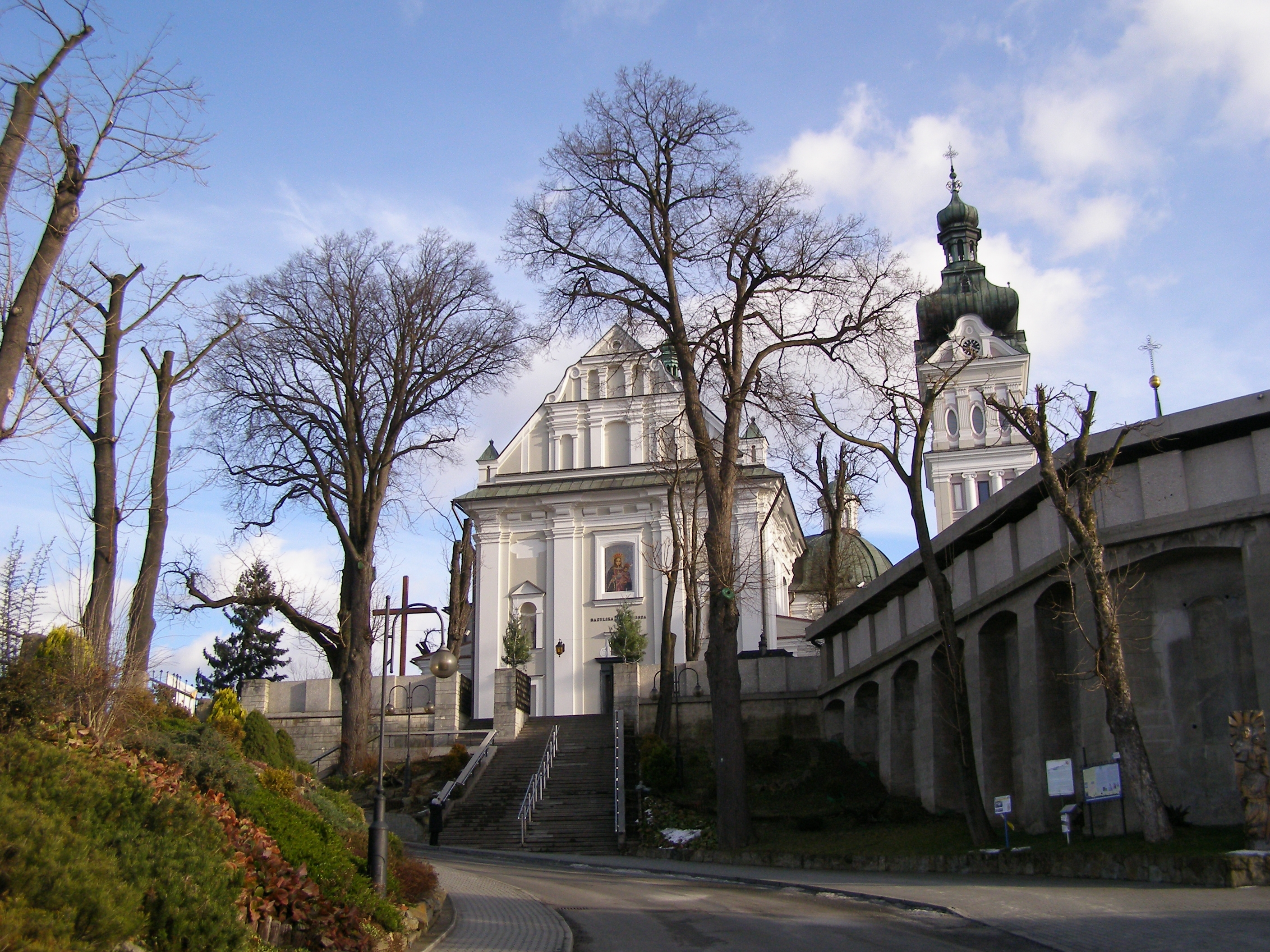 Tuchów - church of the Visitation of Virgin Mary, sanctuary of Virgin Mary of Tuchów